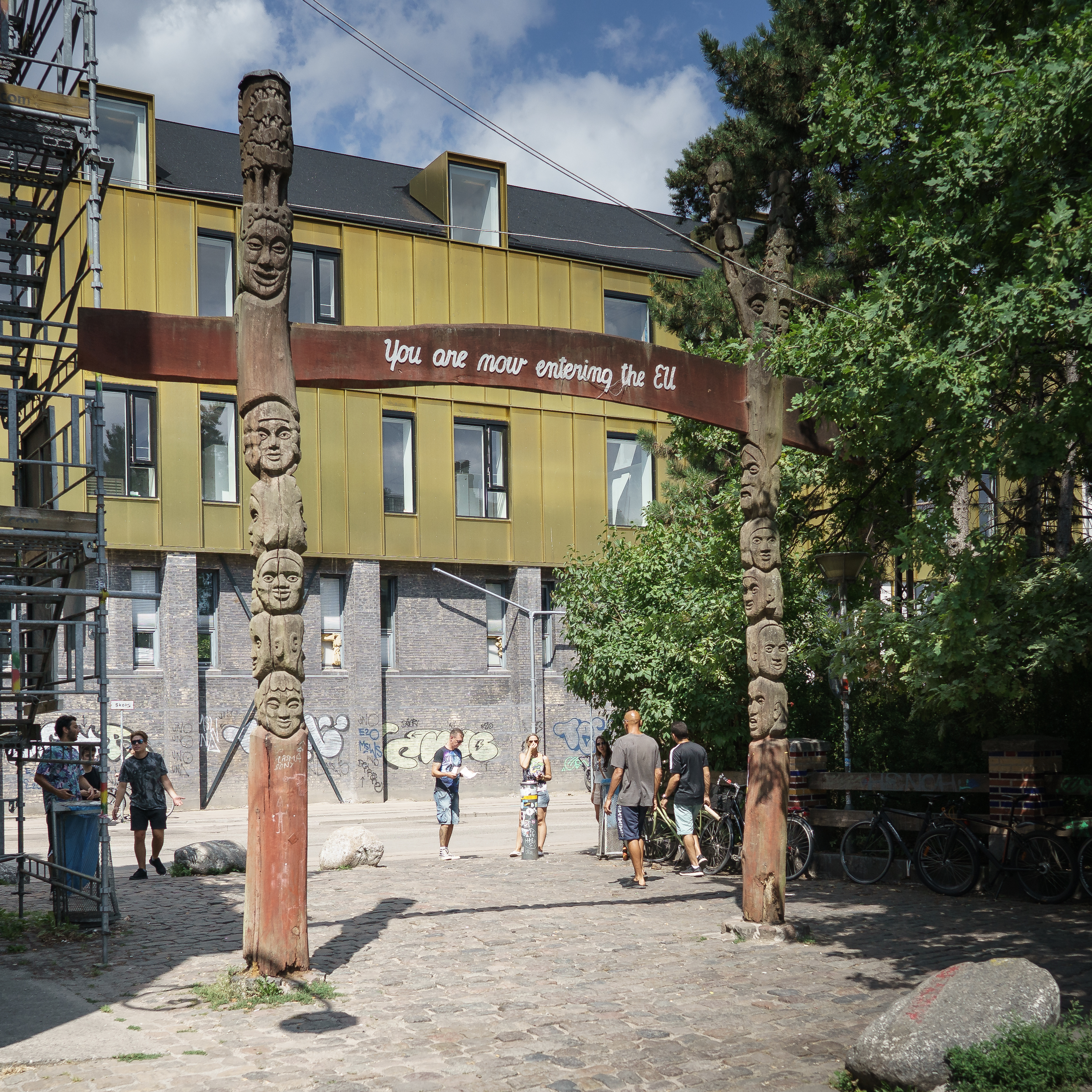 Freetown Christiania - exit / entrance